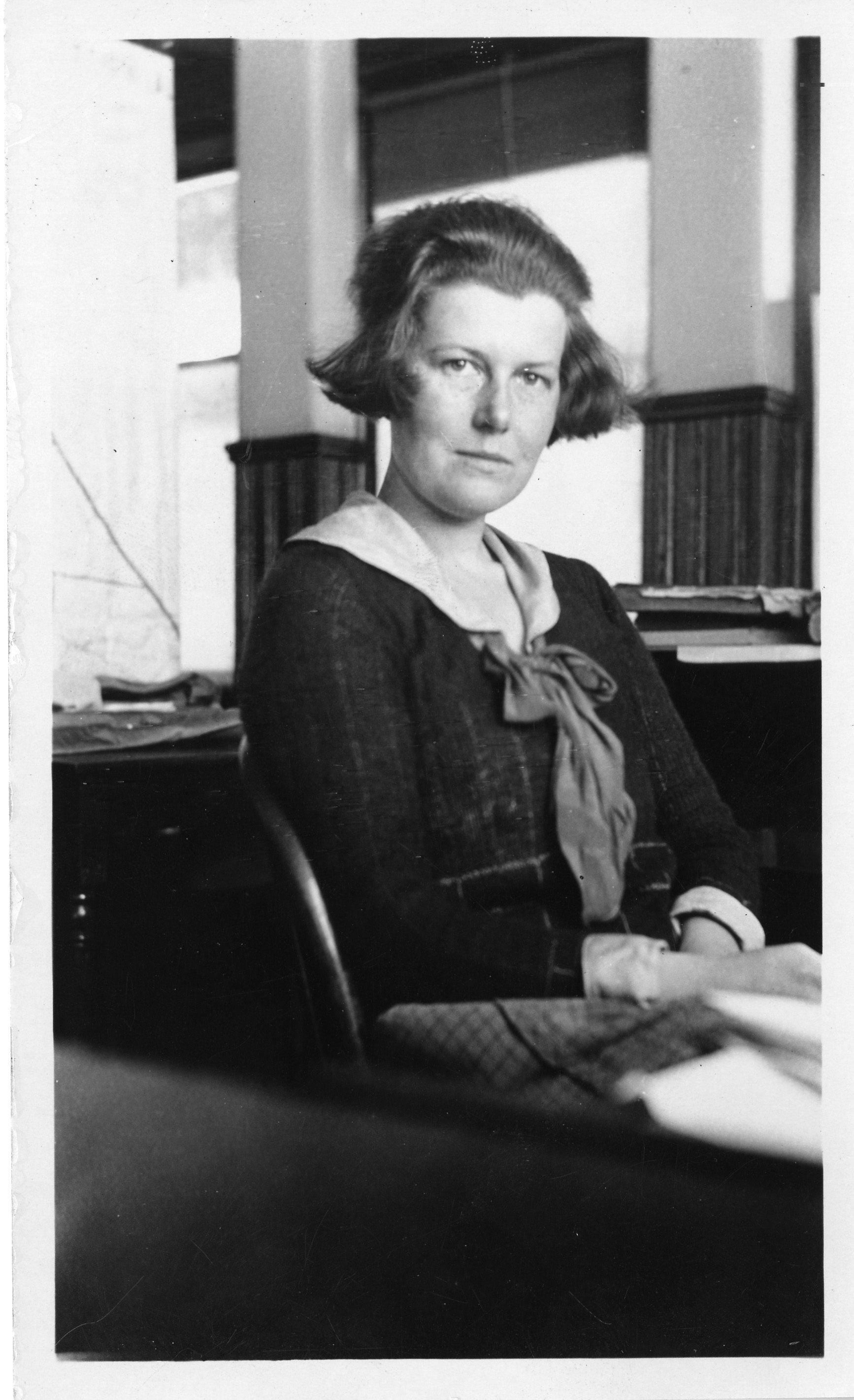 After Roxana Judkins Stinchfield Ferris (1895-1978) received an A.M. in botany from Stanford University (1916), she joined the research and curatorial staff of the university's Dudley Herbarium. Throughout her career, which continued after the death of her husband, Stanford entomologist Gordon Floyd Ferris (1893-1958), and even after her official retirement in 1963, she collected over 14,000 botanical specimens, served as co-editor of the classic reference work Illustrated Flora of the Pacific States, and wrote such books as Death Valley Wildflowers and Flowers of Point Reyes National Seashore. Creator/Photographer: Unidentified photographer Medium: Black and white photographic print Persistent URL: Repository: Smithsonian Institution Archives Collection: Accession 90-105: Science Service Records, 1920s – 1970s - Science Service, now the Society for Science & the Public, was a news organization founded in 1921 to promote the dissemination of scientific and technical information. Although initially intended as a news service, Science Service produced an extensive array of news features, radio programs, motion pictures, phonograph records, and demonstration kits and it also engaged in various educational, translation, and research activities. Accession number: SIA2008-0592